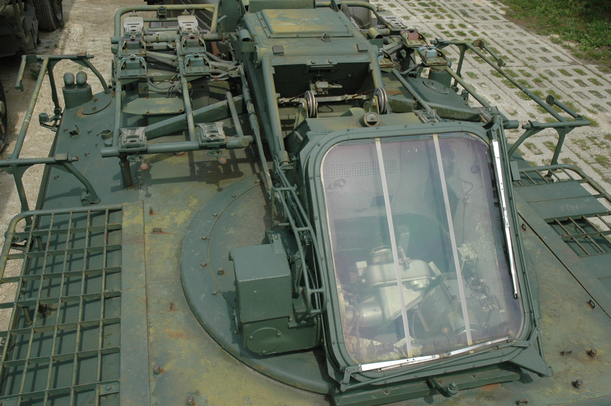 The MT-LB chassis of the 9K35 Strela-10 surface-to-air missile system